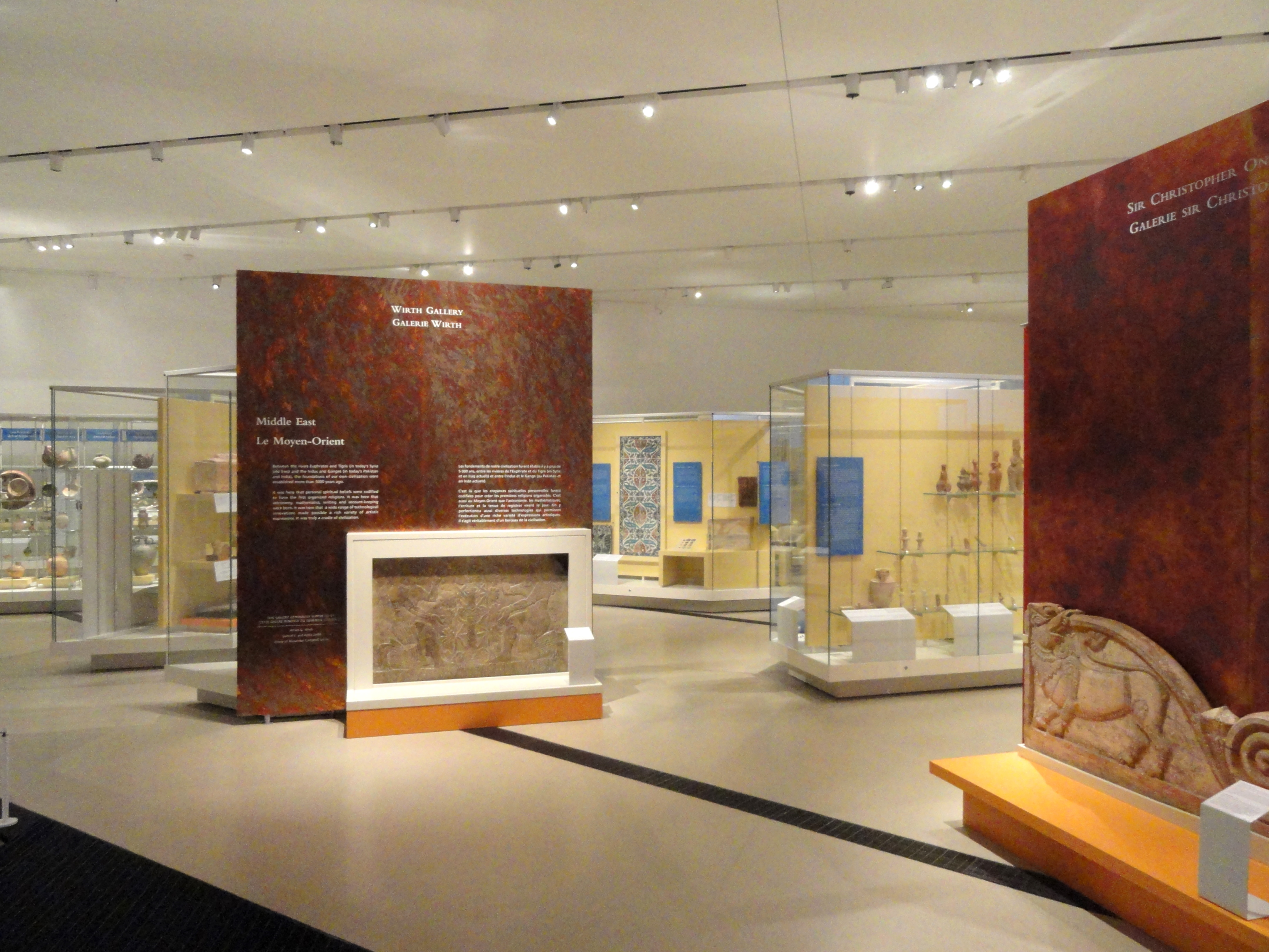 Exhibit in the Royal Ontario Museum, Toronto, Ontario, Canada. This exhibit is old enough so that it is in the public domain, and photography was permitted in the museum. I took this photograph and release it into the public domain.